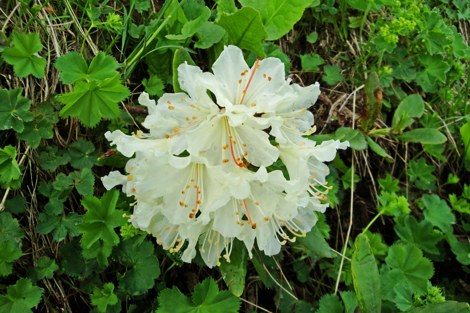 Rhododendron caucasicum